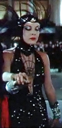 Judy Landon. Screenshot from the trailer for Singin' in the Rain (1952). Trailers from before 1964 are in the public domain.